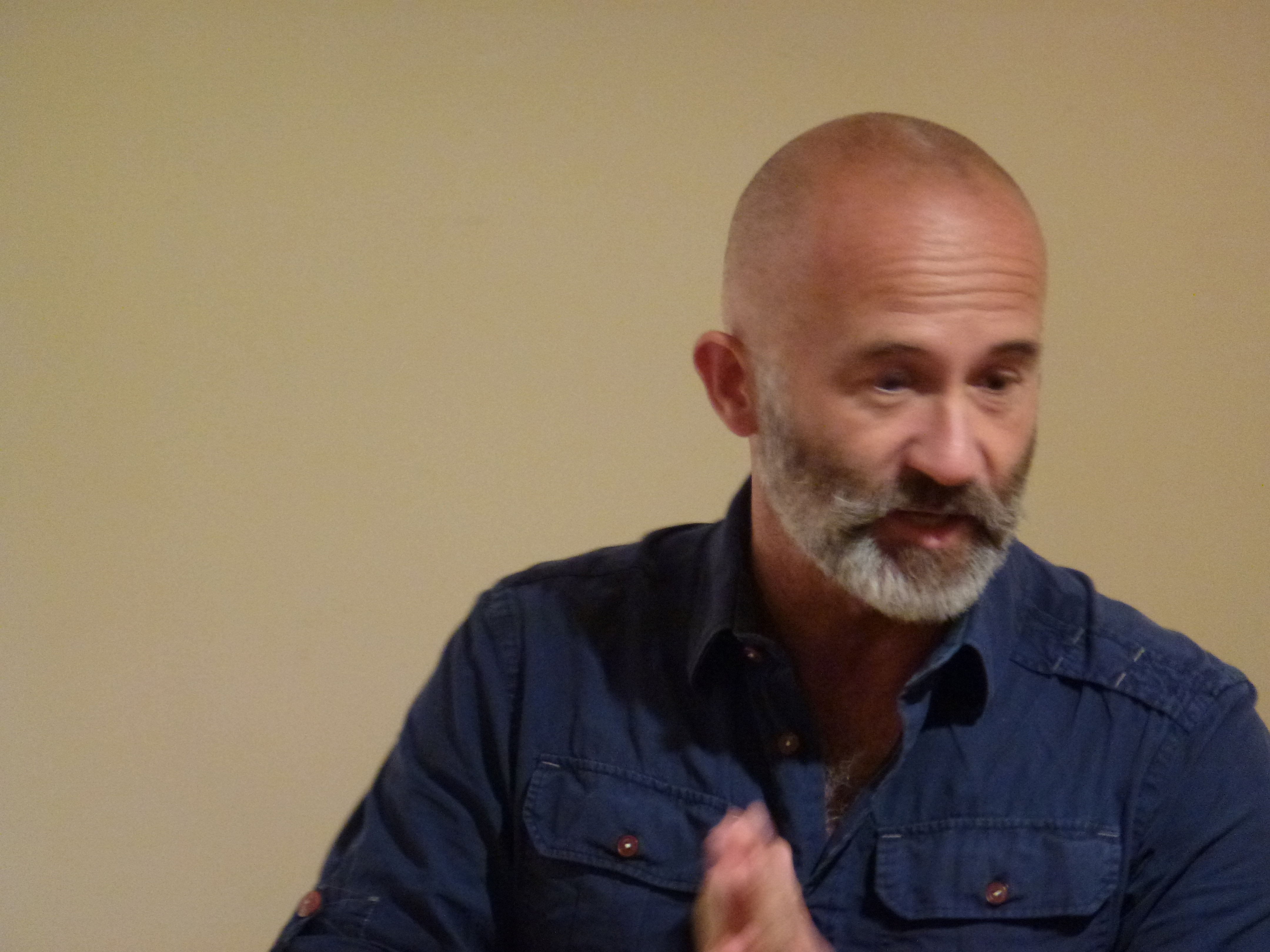 Writer Petrus Dahlin at the public library in Nynäshamn, Sweden